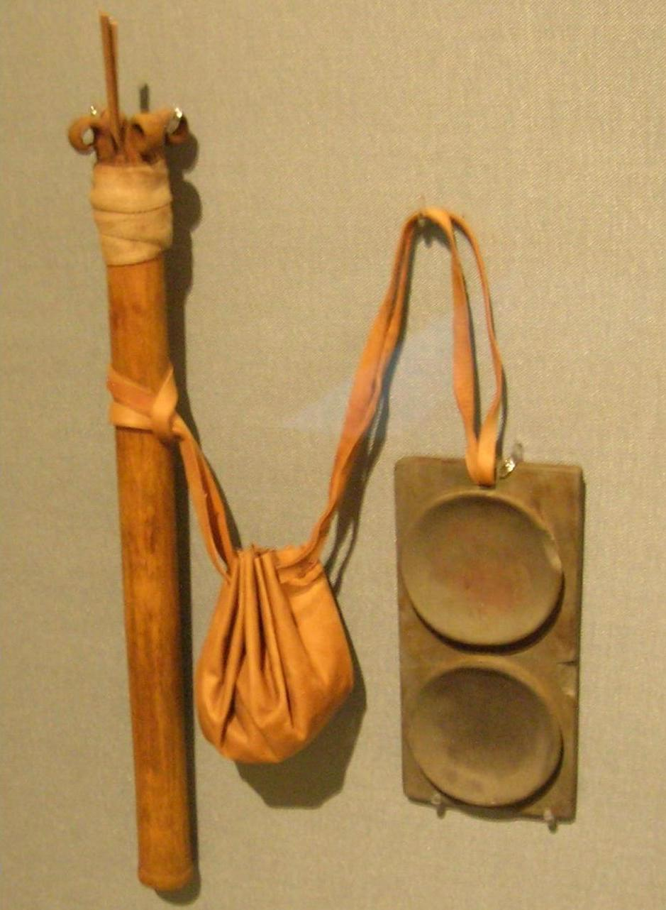 Ancient Egyptian scribe's accessories